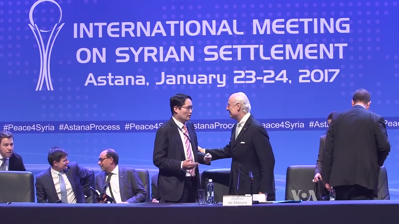 The International Meeting on Syrian Settlement in Astana, Kazakhstan.